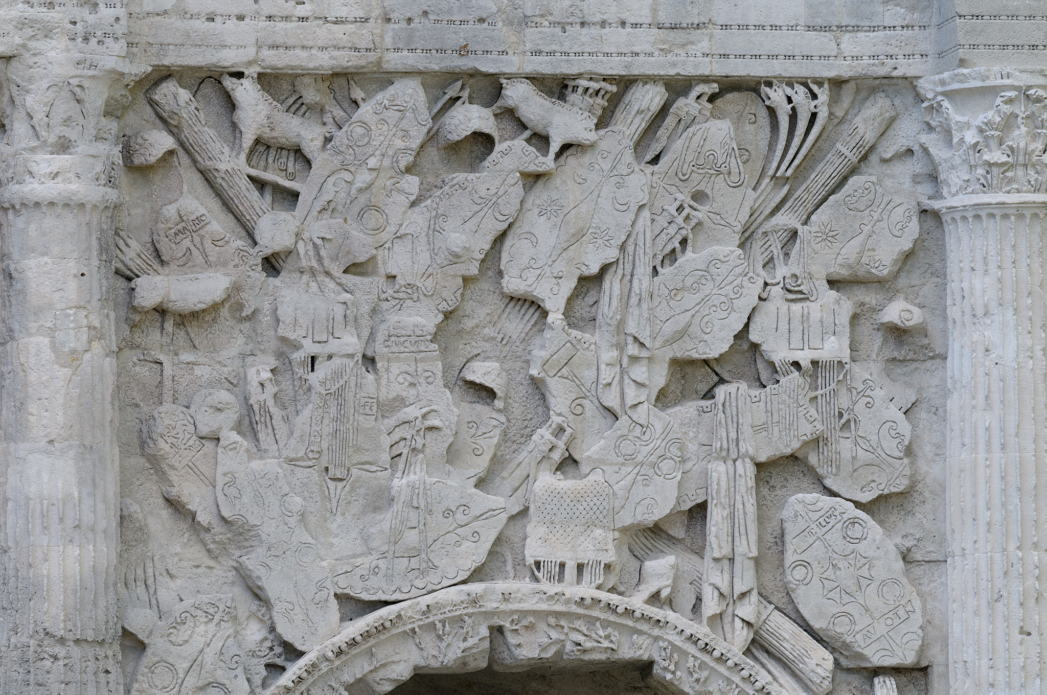 Detail of a sculpted panel on the Triumphal Arch of Orange.